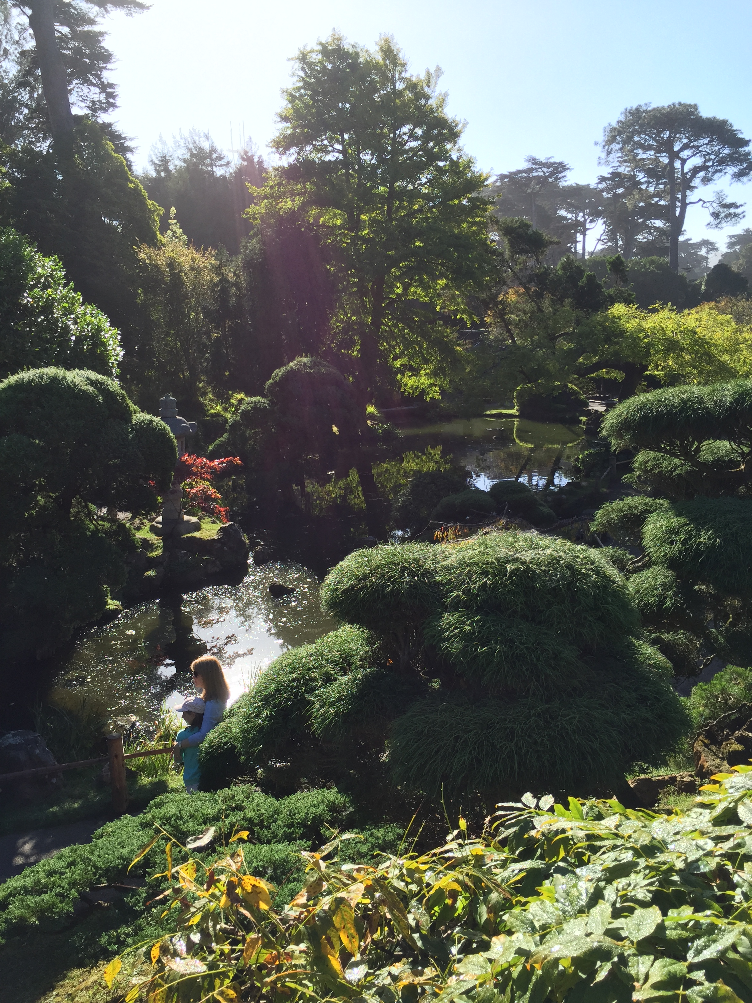 Japanese Tea Garden, Golden Gate Park, San Francisco, California, USA.